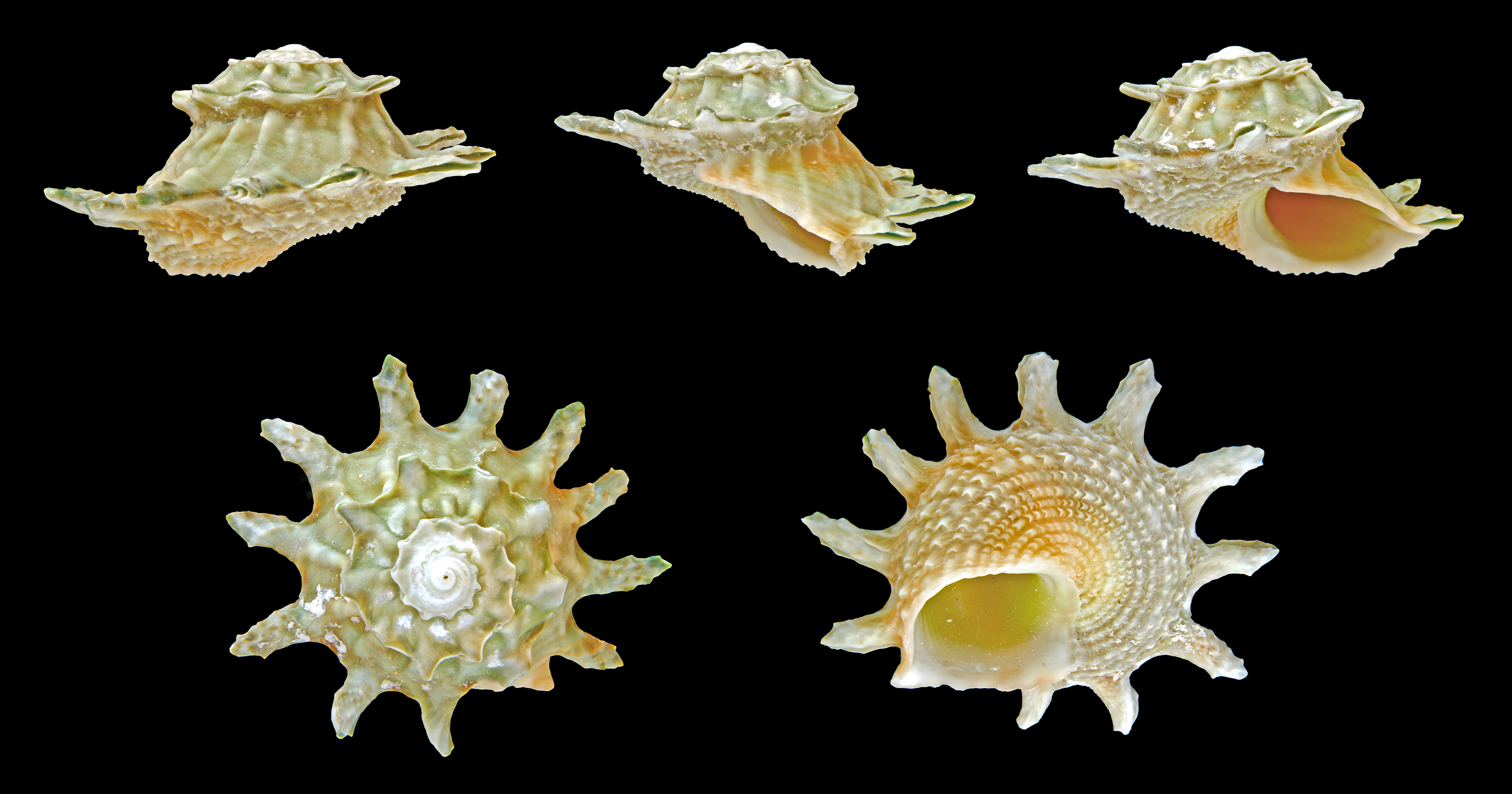 Wheel-like Star Shell , Diameter 3.5 cm; Originating from the Philippines; Shell of own collection, therefore not geocoded.